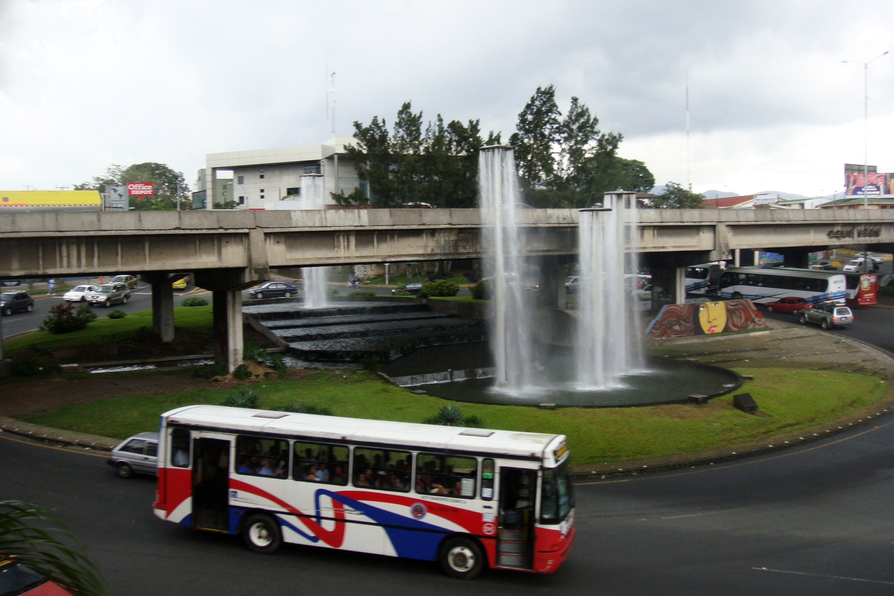 San Pedro Roundabout and "Fuente de la Hispanidad" — Montes de Oca Canton, Metro San José,. Canton in San José Province, central Costa Rica.